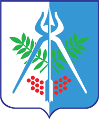 Izhevsk (Udmurtia), coat of arms